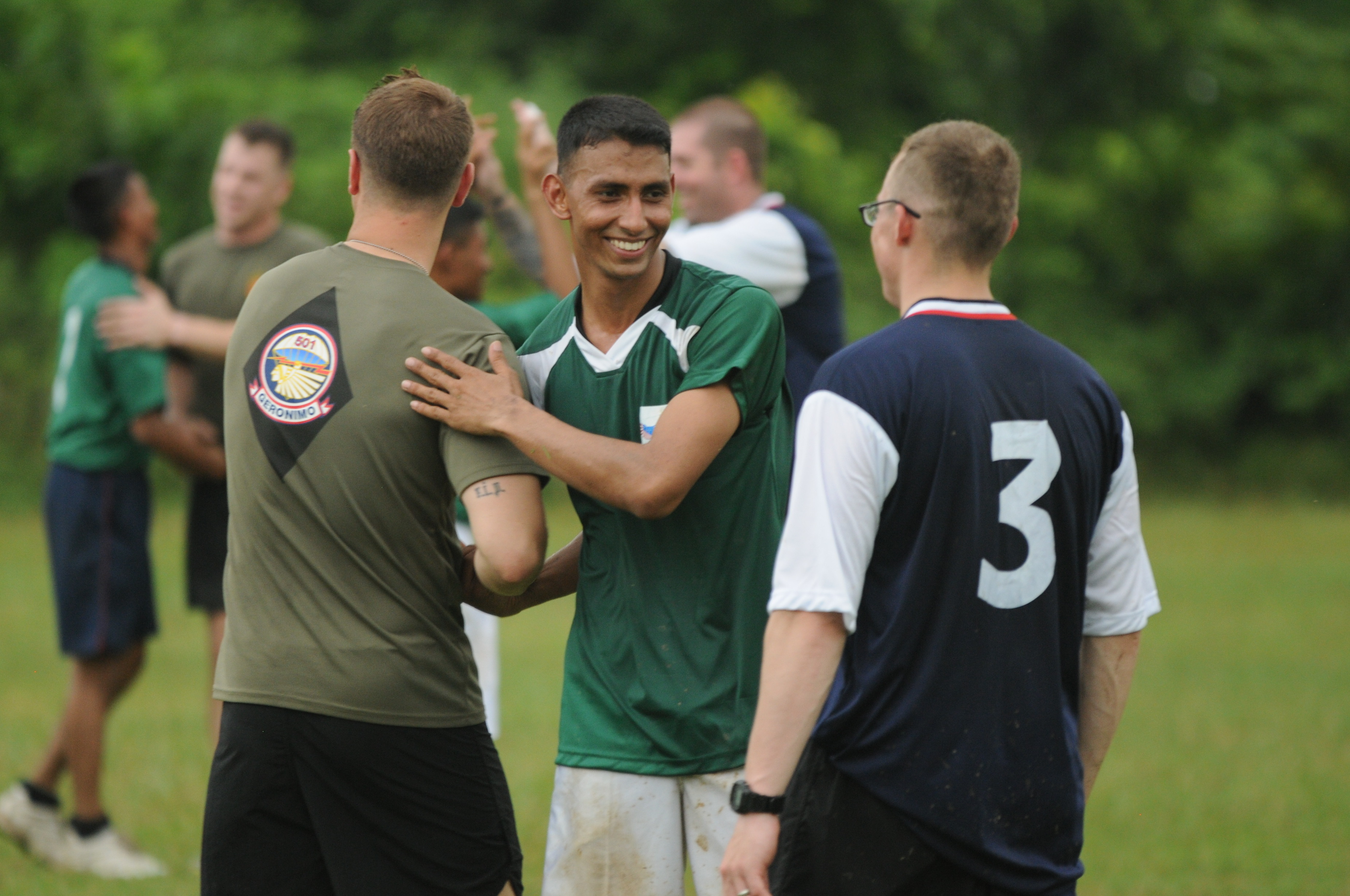 Paratroopers with the 1st Battalion (Airborne), 501st Infantry Regiment, 4th Infantry Brigade Combat Team (Airborne), 25th Infantry Division, and soldiers with the Bangladesh Army’s 46th Independent Infantry Brigade shake hands after a soccer game Aug. 24, 2014, at the Bangladesh Institute of Peace Support Operation Training at the Rajendrapur Catonement Training Area, near Dhaka, Bangladesh. The U.S. Army was in Bangladesh for Aurora Monsoon, a bilateral exchange and training exercise focused on building relationships and enhancing abilities in operating in a jungle environment and unfamiliar terrain. (U.S. Army photo by Sgt. 1st Class Jeffrey Smith/Released)